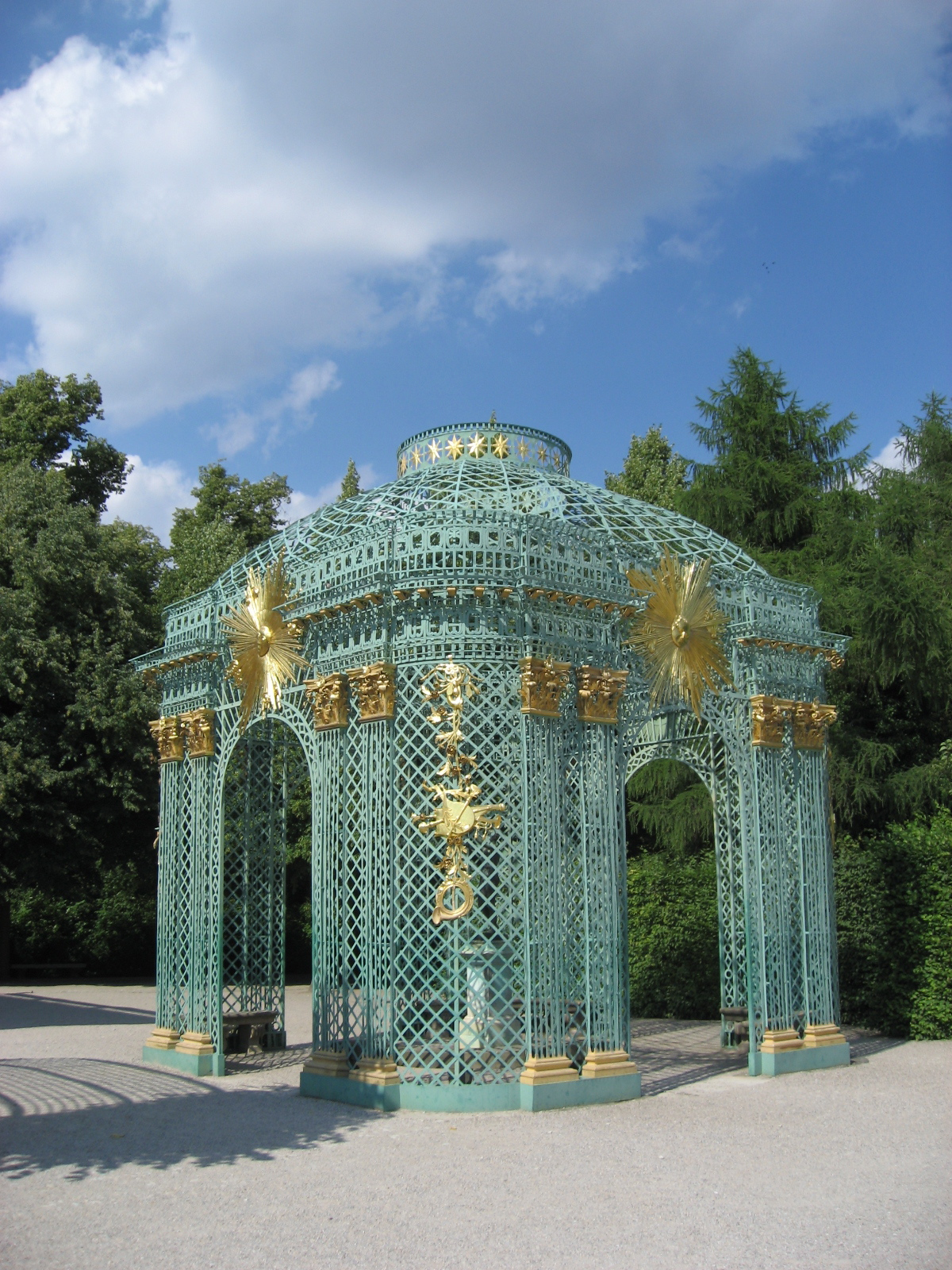 One of the trellised gazebos in the park of Sanssouci